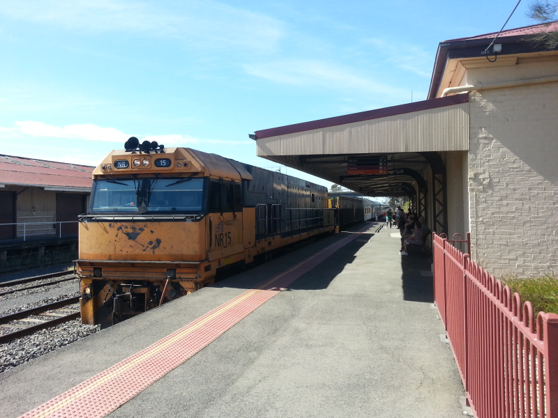 Horsham railway station with Overland train (arriving from Melbourne on its way to Adelaide)